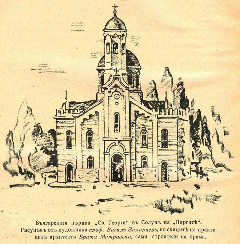 St. George, Salonika 1907